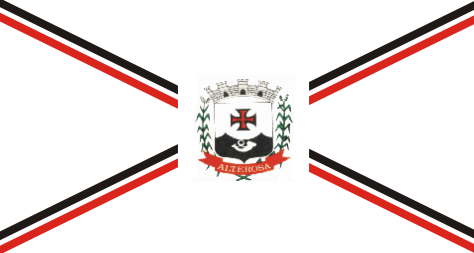 Flag of city of Alterosa, Minas Gerais, Brazil